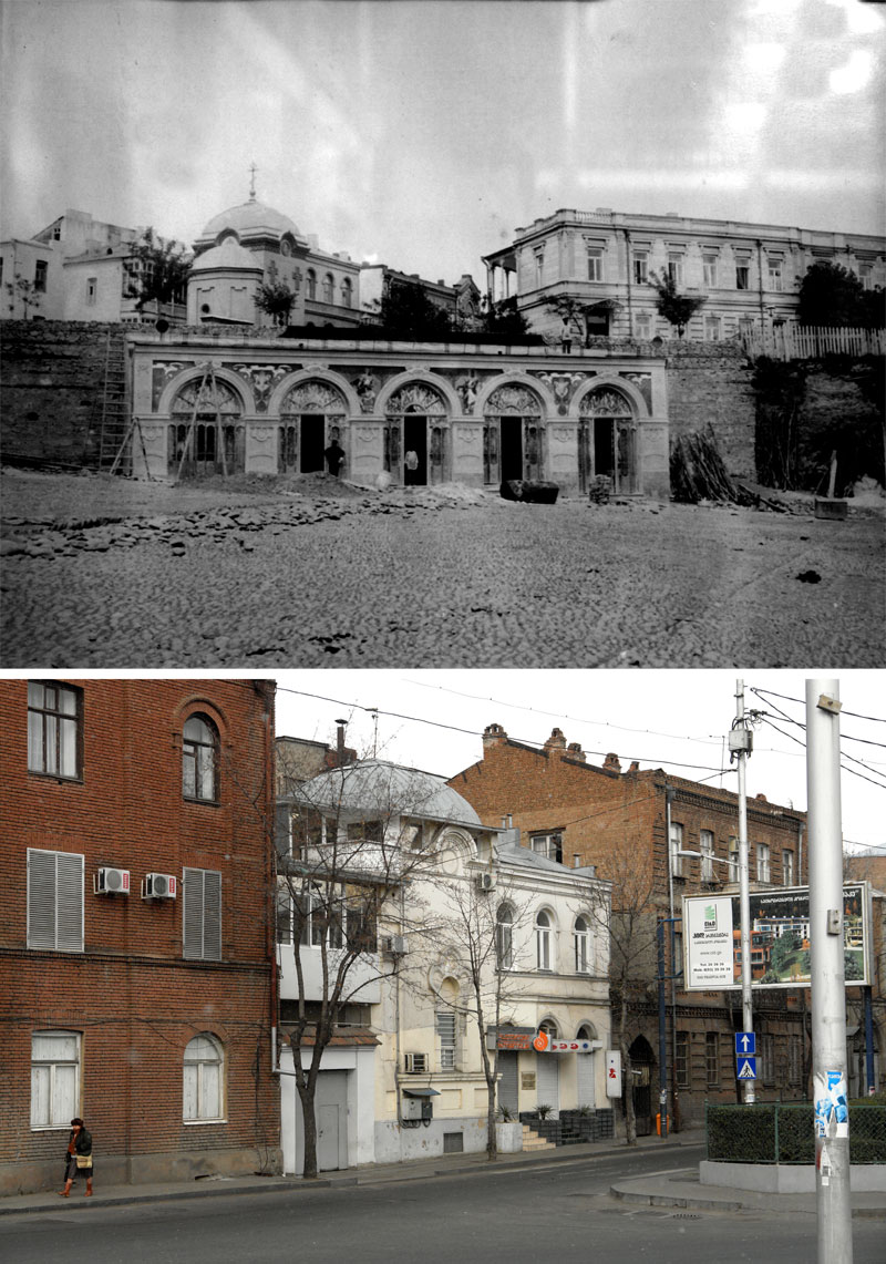 Georgian Orthodox church built in honour of Evstathe from Mtskheta was built in 1870-ies in place of ruins of a small church from the times of Queen Tamar. It stood on the Korghanov street (now Giorgi Akhvlediani street, formerly Preovskaya). In 1923 it was was changed into a residential building and one of the first residents of the building became a composer, Meliton Balanchivadze (Father of George Balanchine).